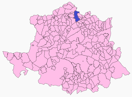 Zarza de Granadilla